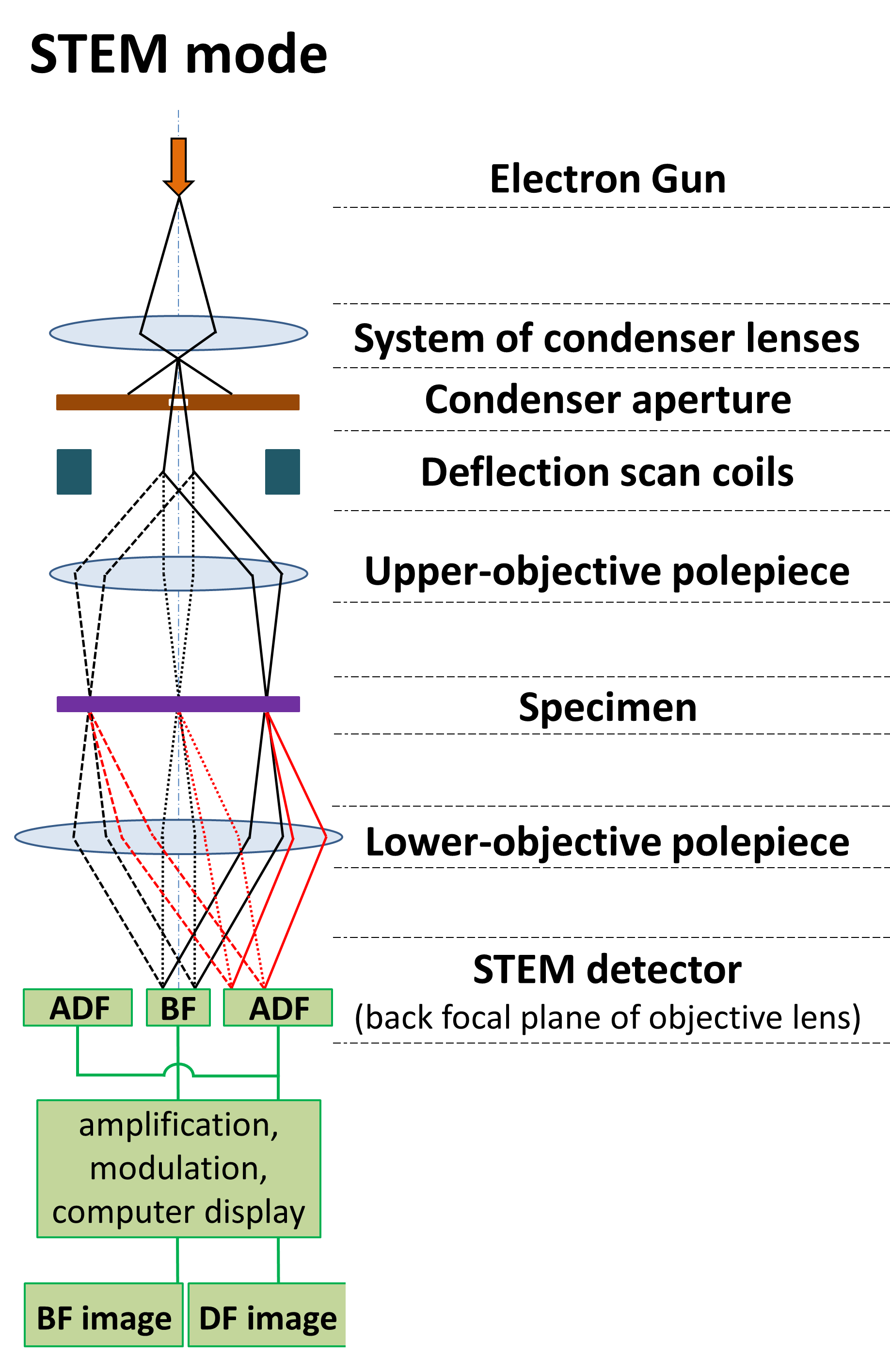 Schematic view of STEM mode